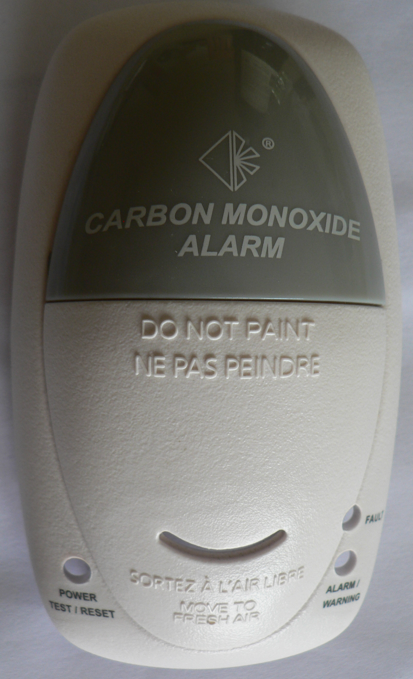 CO alarm device from elro.eu